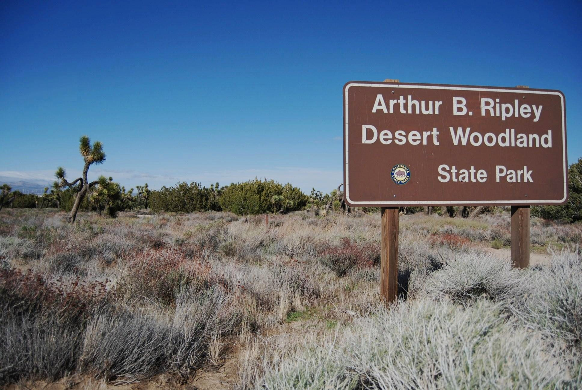 Sign for Arthur B. Ripley Desert Woodland State Park — in the Antelope Valley of the western Mojave Desert, in Southern California, USA